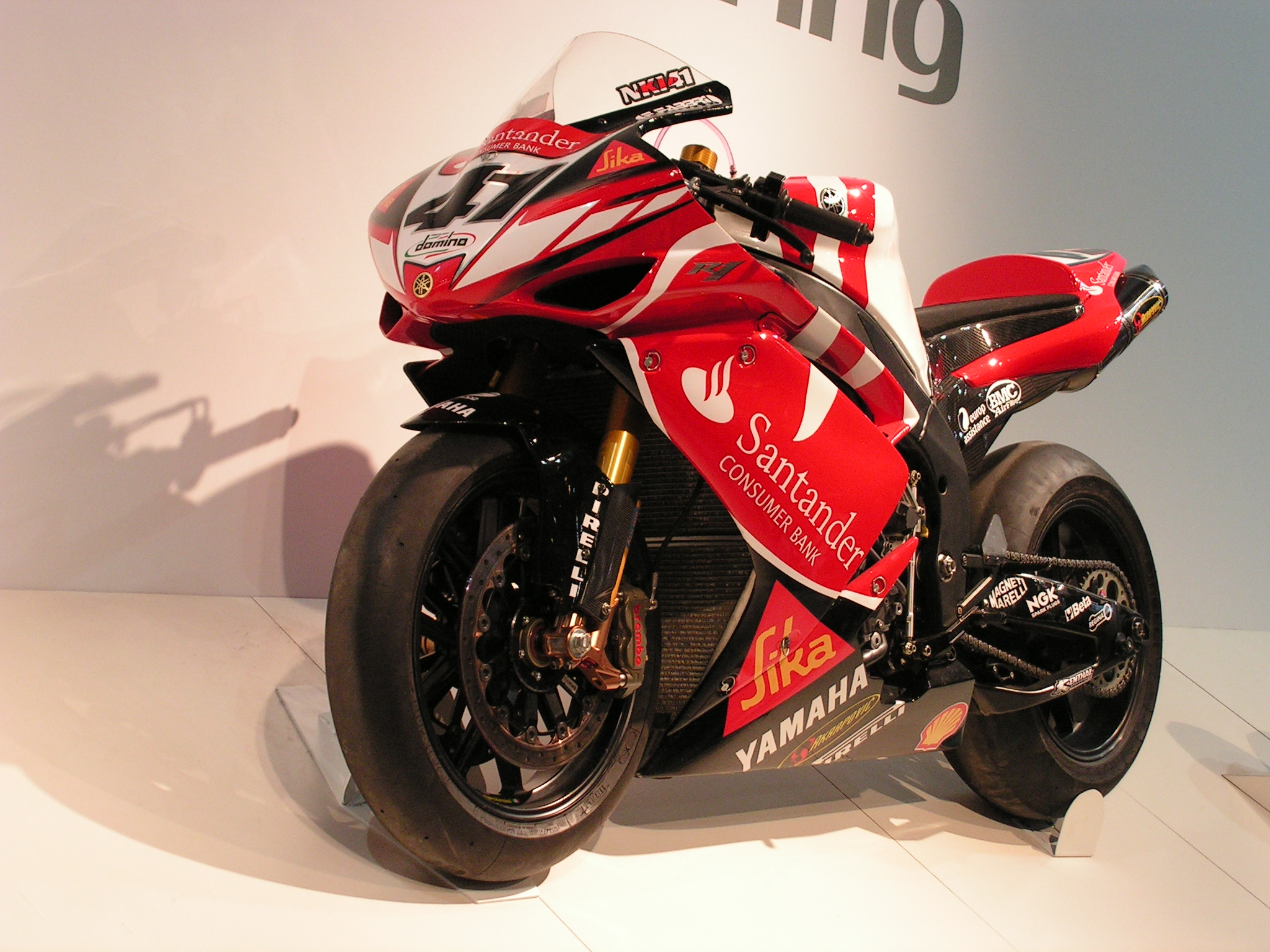 Yamaha YZF-R1 used by Noriyuki Haga during the Superbike championship 2007 - EICMA 2007, Milan (Italy)